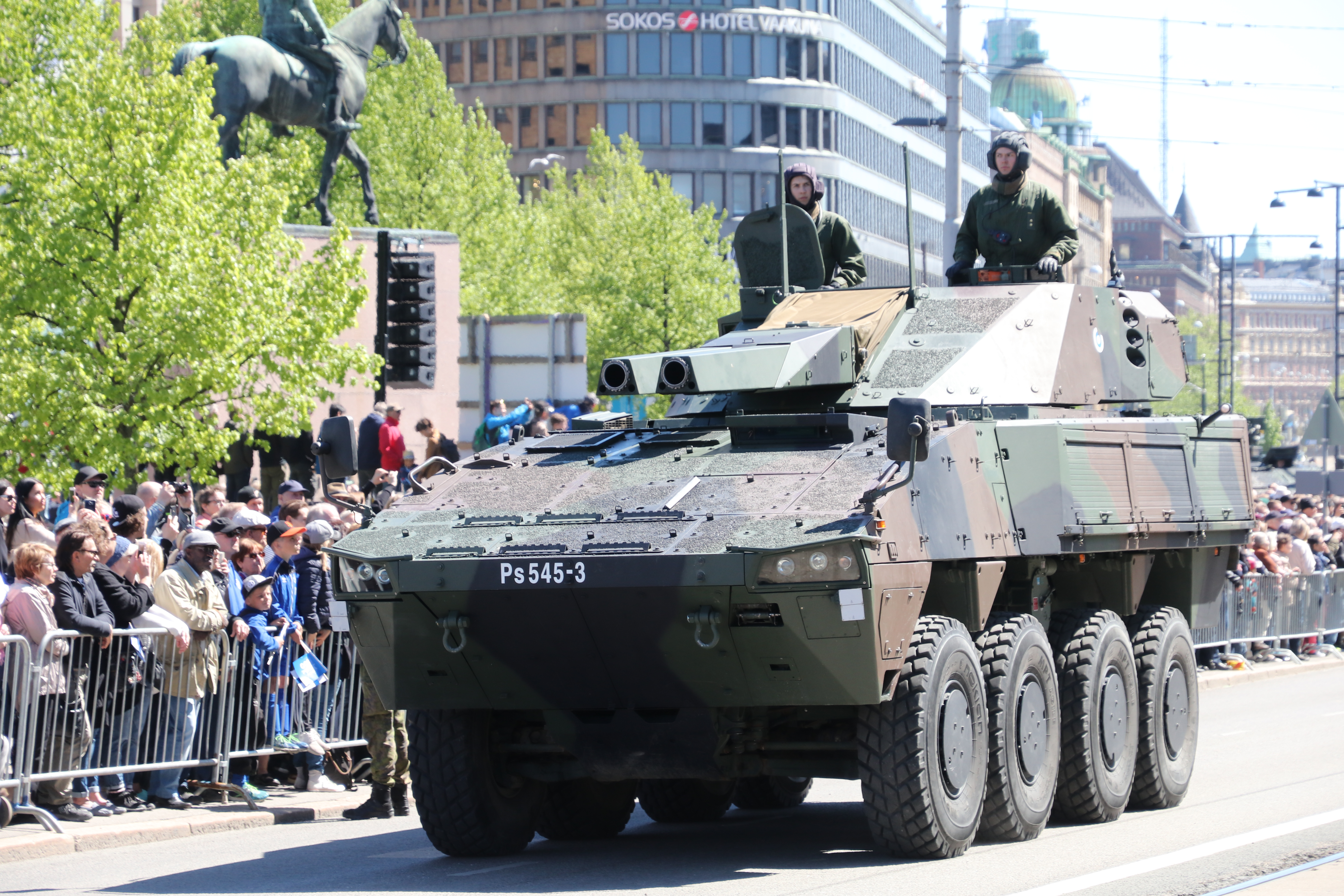 Finnish defence forces flag day 2017 parade: Patria AMV XA-361 AMOS mortar vehicle Ps 545-3.